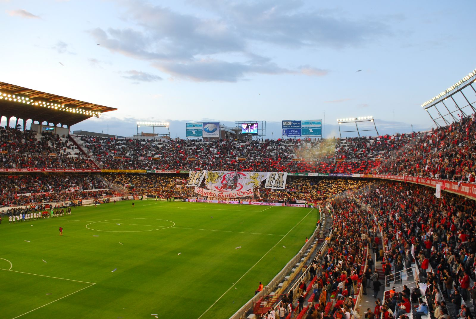 Estadio Ramón Sánchez Pizjuán, Sevilla, Spain. View of the grandstand, Gol Norte and the Fondo stand.